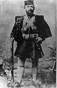 Spiidon Kopalis from Volos